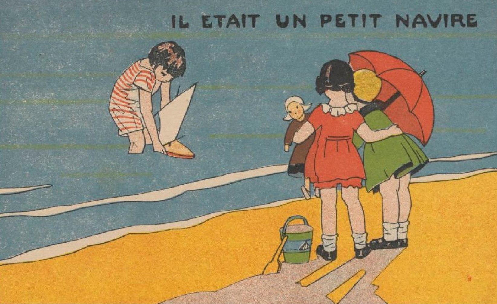 Picture from page 7 of document File:Chansons enfantines imagées - album à colorier.pdf